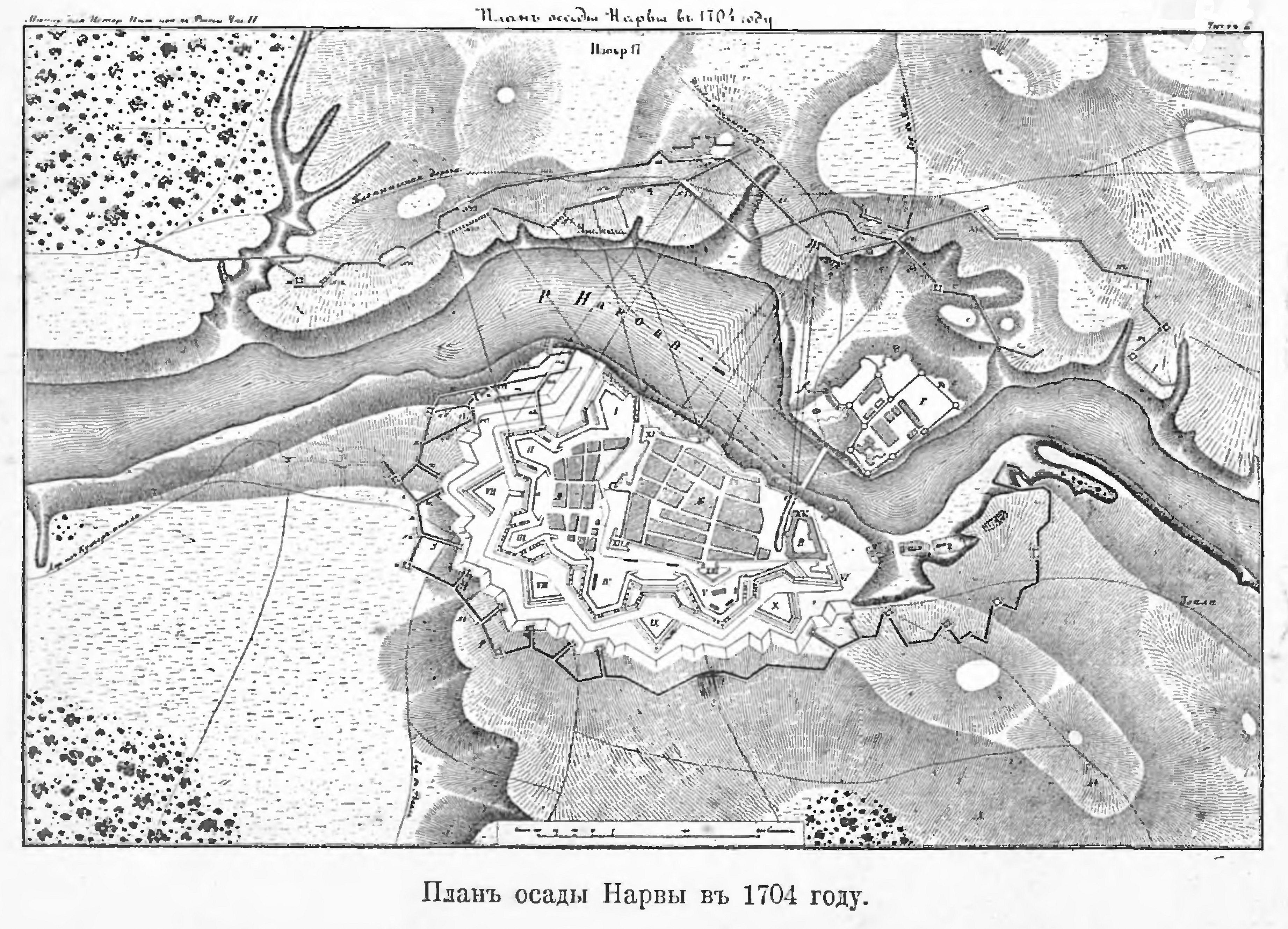 The Battle of Narva was the second Russian siege of Swedish Narva during the Great Northern War, resulting in the capture of the town by Russia on 9 August 1704, and the subsequent massacre of some of its Swedish inhabitants.